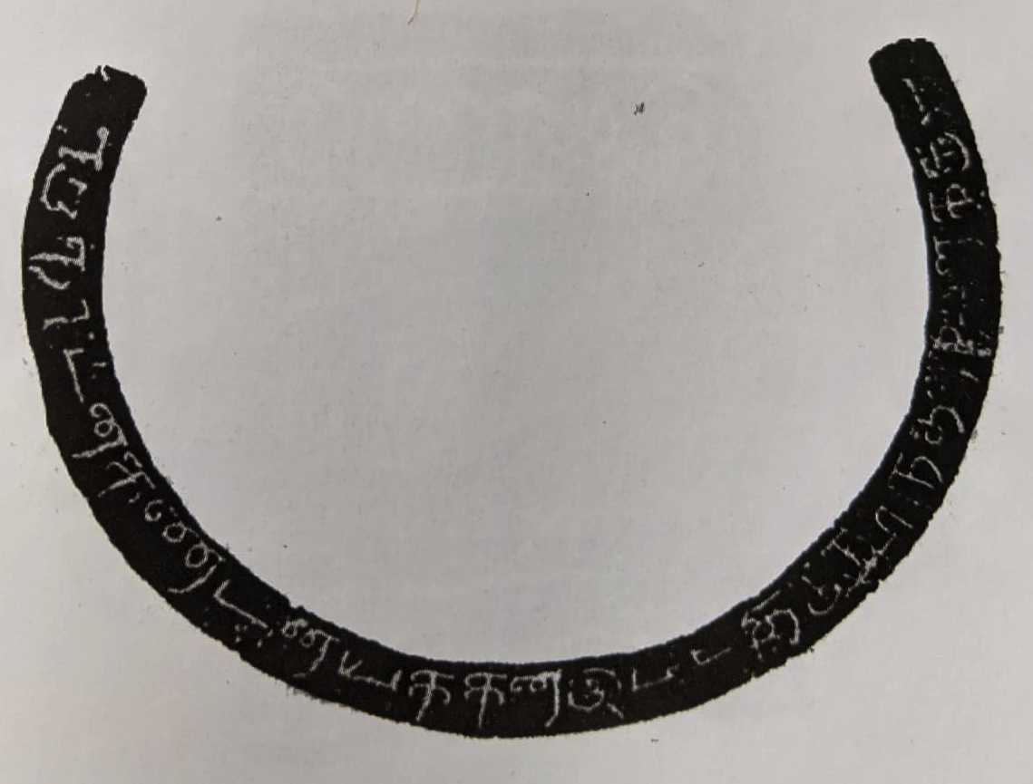 Velgam Vihara Tamil inscriptions, 11th century AD f